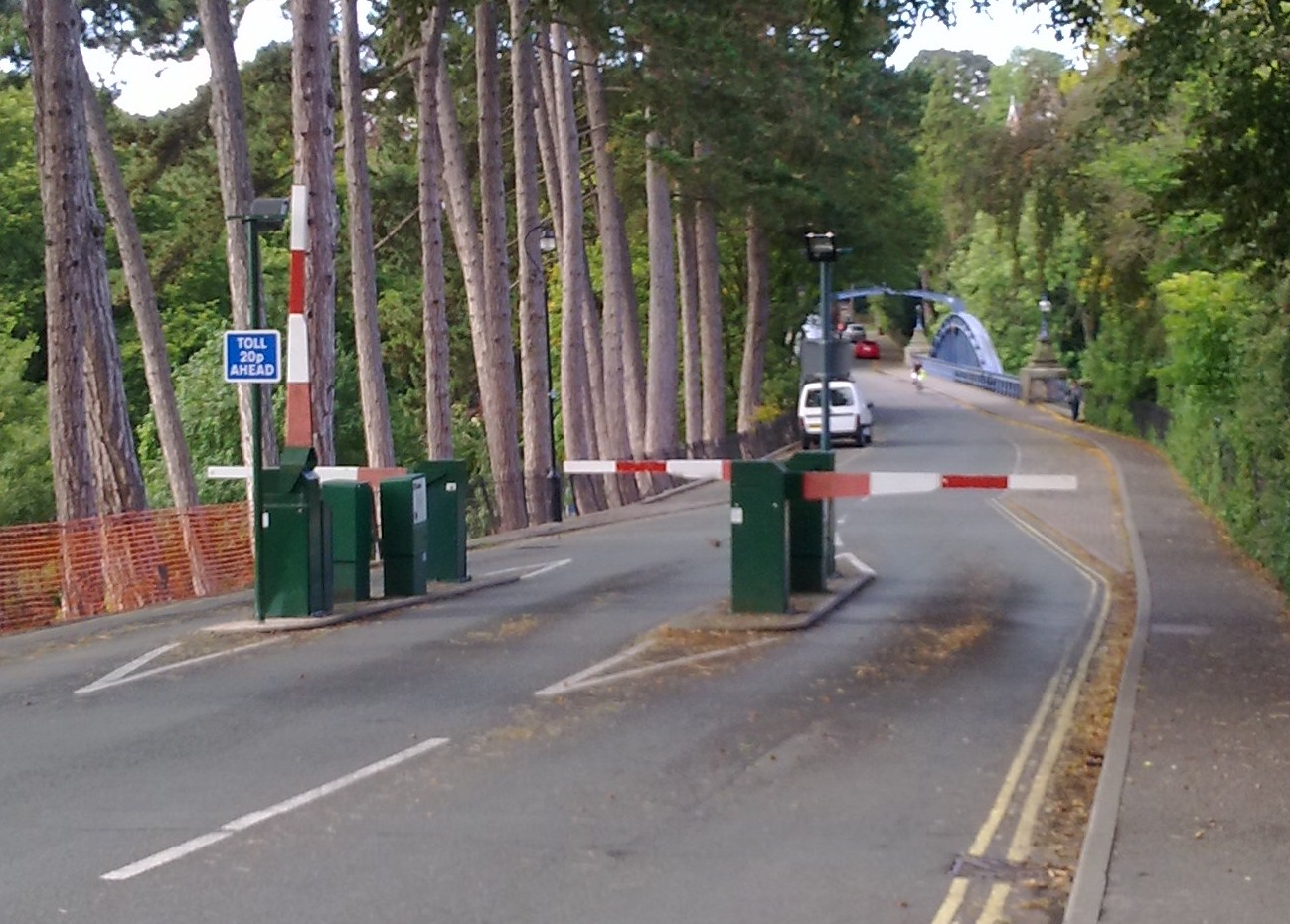 The toll point at Kingsland Bridge in Shrewsbury, Shropshire, United Kingdom.